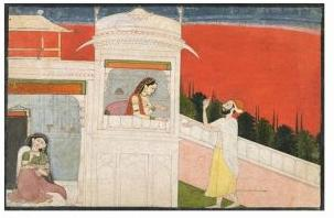 Rukmini and the messenger, 1775-1785 V&A Museum no. IS.129-1951 Techniques - Opaque watercolour on paper Place - Tehri Garhwal, India Dimensions - Height 16.6 cm (with border), Width 24.8 cm (with border) The painting shows an episode from the story of Krishna and Rukmini, known as the 'Rukmini-Harana' or 'Abduction of Rukmini'. This scene shows Rukmini in a pavilion, listening to a messenger sent by her lover, the Hindu god Krishna. The messenger, shown with his hand raised to indicate that he is speaking, brings Rukmini the welcome news that Krishna intends to abduct her in order to prevent her marriage to another man. The bright red background accentuates the passionate feelings that Rukmini has for the absent Krishna.